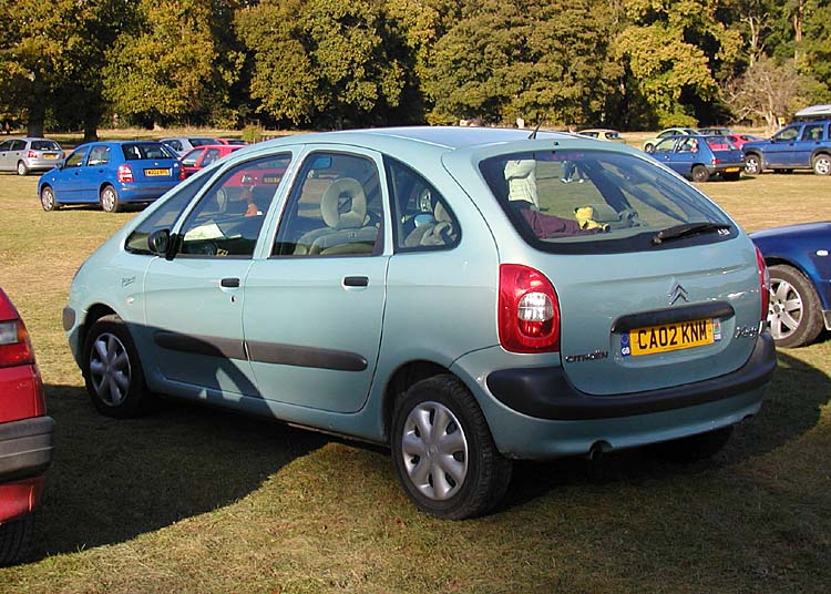 2002 Citroen Xsara. Picture taken by Adrian Pingstone at Westonbirt Arboretum, Gloucestershire, England, in October 2003 and released to the public domain.